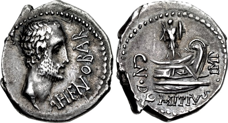 The Republicans. Cn. Domitius L.f. Ahenobarbus. 41-40 BC. AR Denarius (17mm, 3.66 g, 6h). Uncertain mint along the Adriatic or Ionian Sea. Bare head of Ahenobarbus right; AHENOBAR to right / Prow right surmounted by military trophy; CN · DOMITIVS · IMP below. Crawford 519/2; CRI 339; Sydenham 1177; RSC 21; RBW 1803. Near EF, toned, light scrape above ear, a few light scratches. Great metal with a nice strike and well centered.